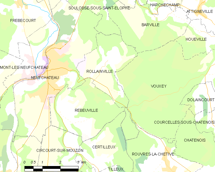 Map of French municipality Rollainville